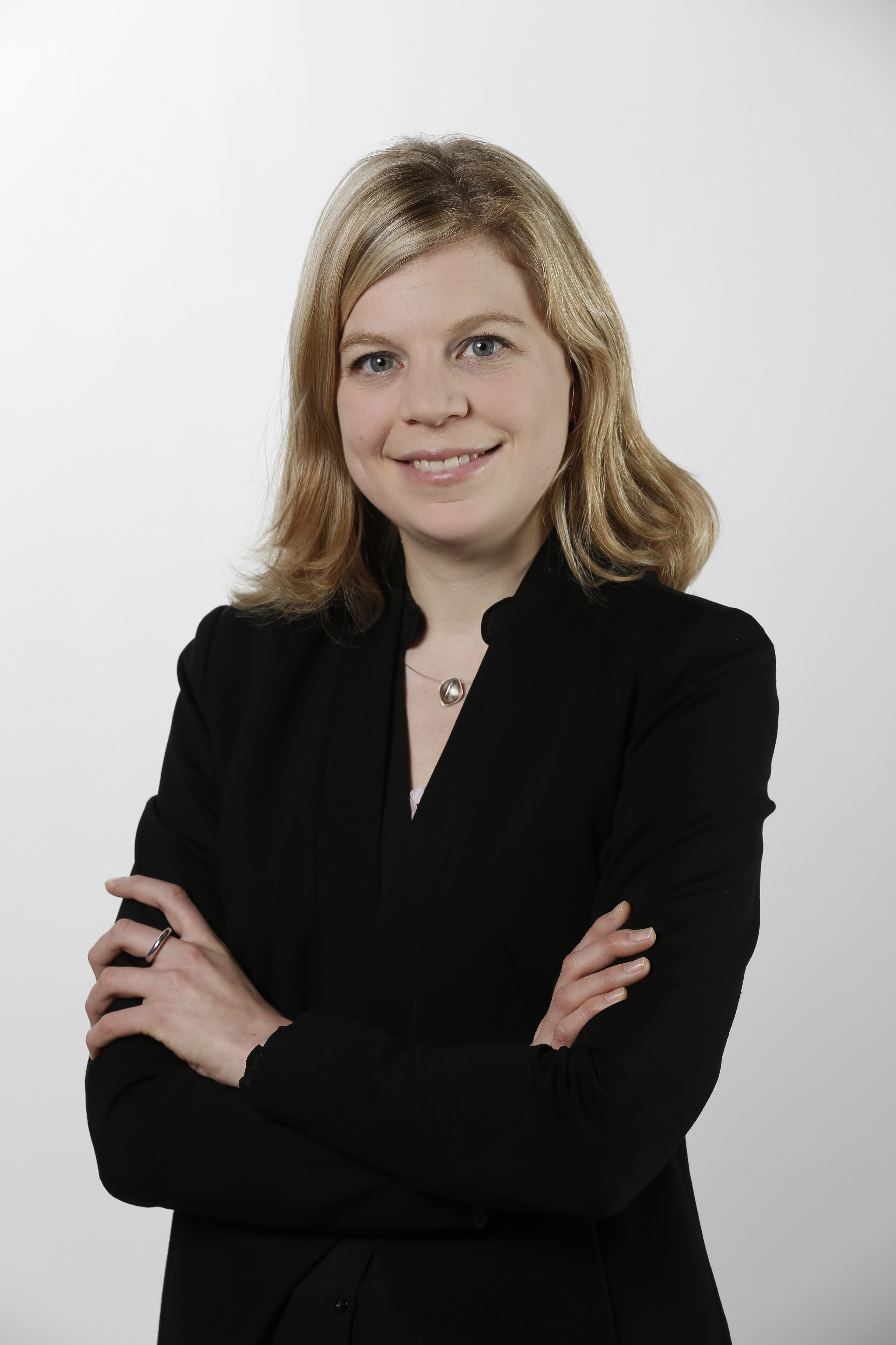 Official photo of Nadine Masshardt, member of the Swiss National Council